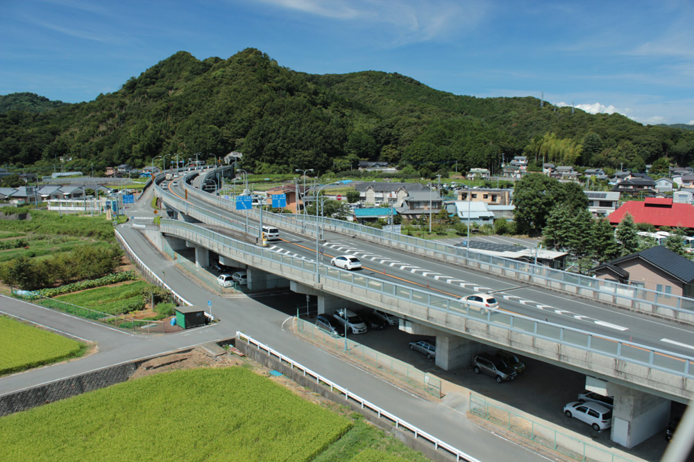 Izunagaoka IC in Izunokuni, Shizuoka Prefecture, Japan.